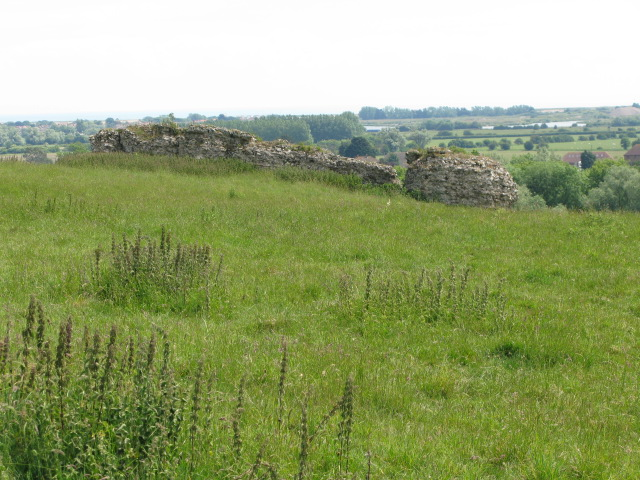 Part of Stutfall Castle, a Roman fort